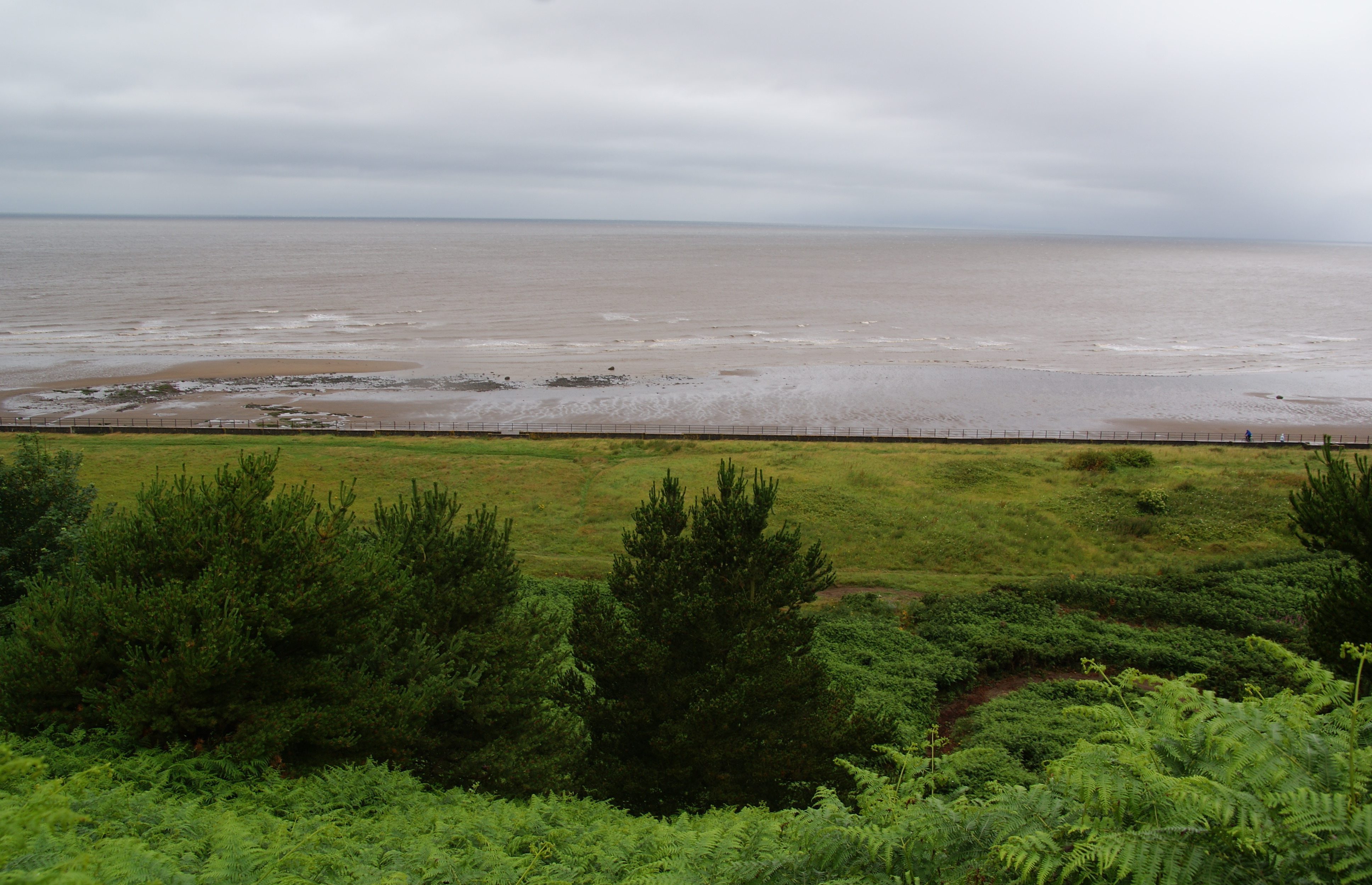 View over the Sea Brows